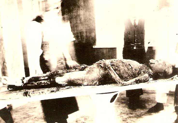 Autopsy of a Japanese victim of the Tsinan Massacre